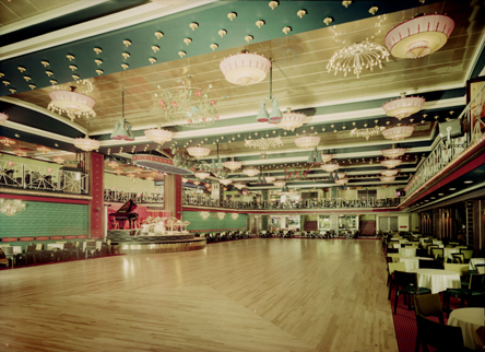 Dance floor looking towards second bar with main bar to right and stage to left. The Mayfair Ballroom and Concert Hall was one of the most popular venue's in Newcastle-Upon-Tyne, hosting a rock club, which became the largest and longest-running of its kind in Europe. Situated on the corner of Newgate Street and Low Friar Street, it closed in 1999 to make way for a leisure complex, now known as The Gate. 22 November 1961 photographed by Turner's. Turner’s was established in Newcastle upon Tyne in the early 1900s. It was originally a chemists shop but in 1938 become a photographic dealer. Turners went on to become a prominent photographic and video production company in the North East of England. They had 3 shops in Newcastle city centre, in Pink Lane, Blackett Street and Eldon Square. Turner’s photographic business closed in the 1990s. Ref: TWAS:DT.Tur/4/AG1838 (Copyright) We're happy for you to share this digital image within the spirit of The Commons. Please cite 'Tyne & Wear Archives & Museums' when reusing. Certain restrictions on high quality reproductions and commercial use of the original physical version apply though; if you're unsure please . To purchase a hi-res copy please quoting the title and reference number.